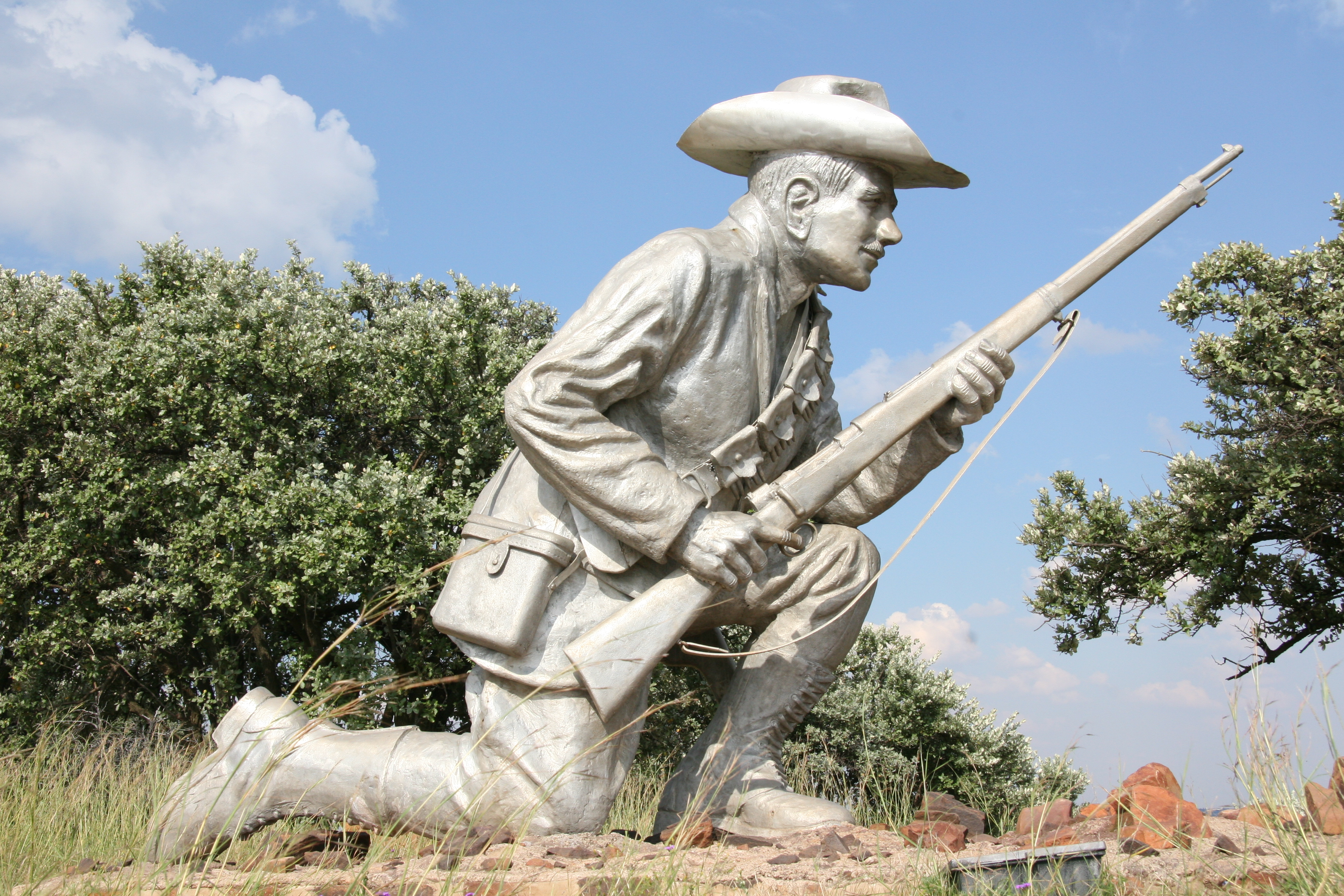 A Refurbished Statue of Danie Theron erected on the grounds next to fort Schanskop, Pretoria, South Africa